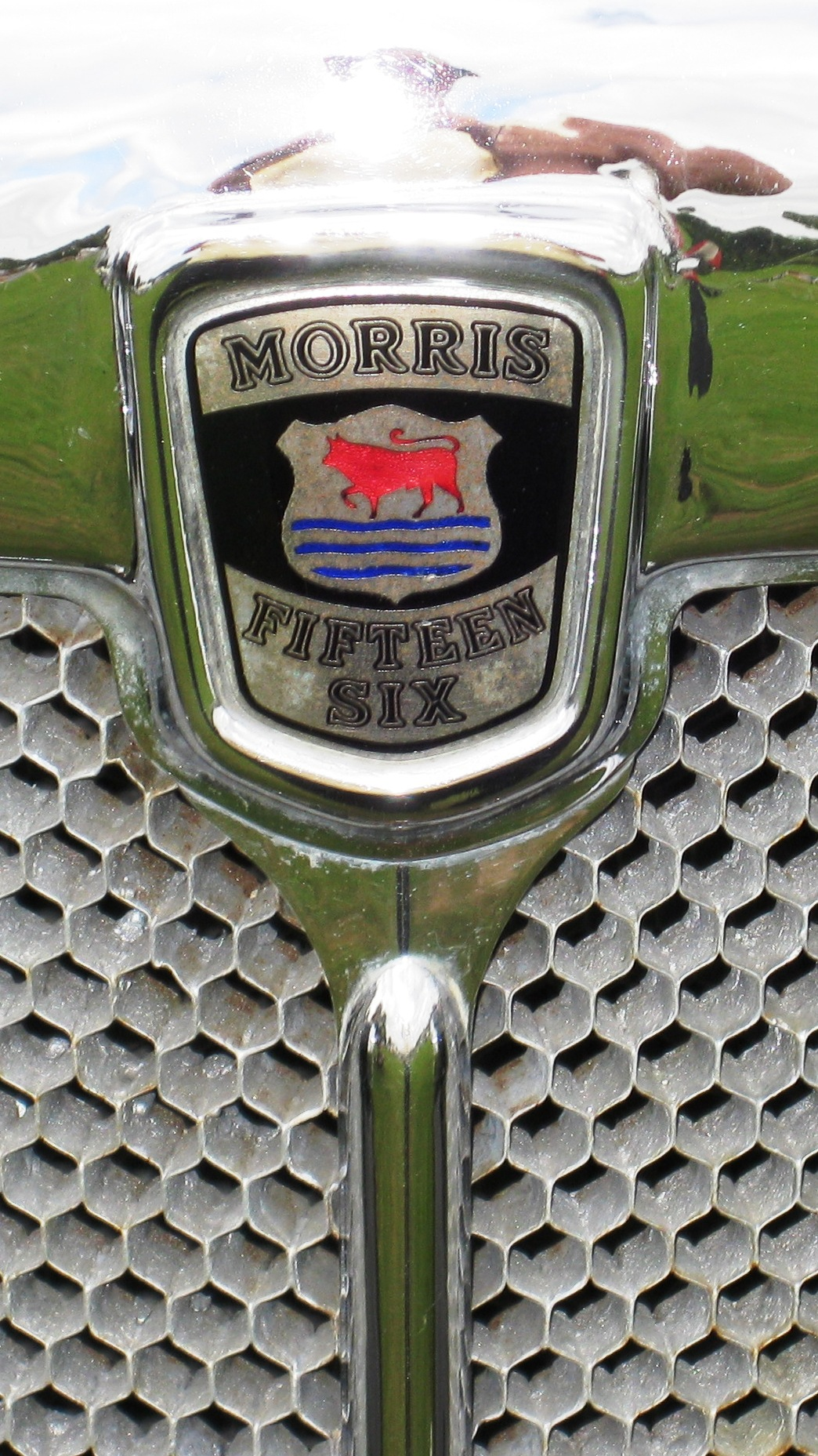 The badge on a 1935 Morris 15-6